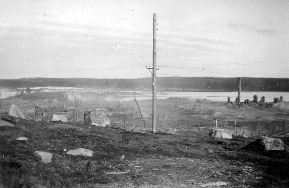 Finnish troops recapture the Porajärvi village which was destroyed by the retreating Russian troops on 12 October 1941.